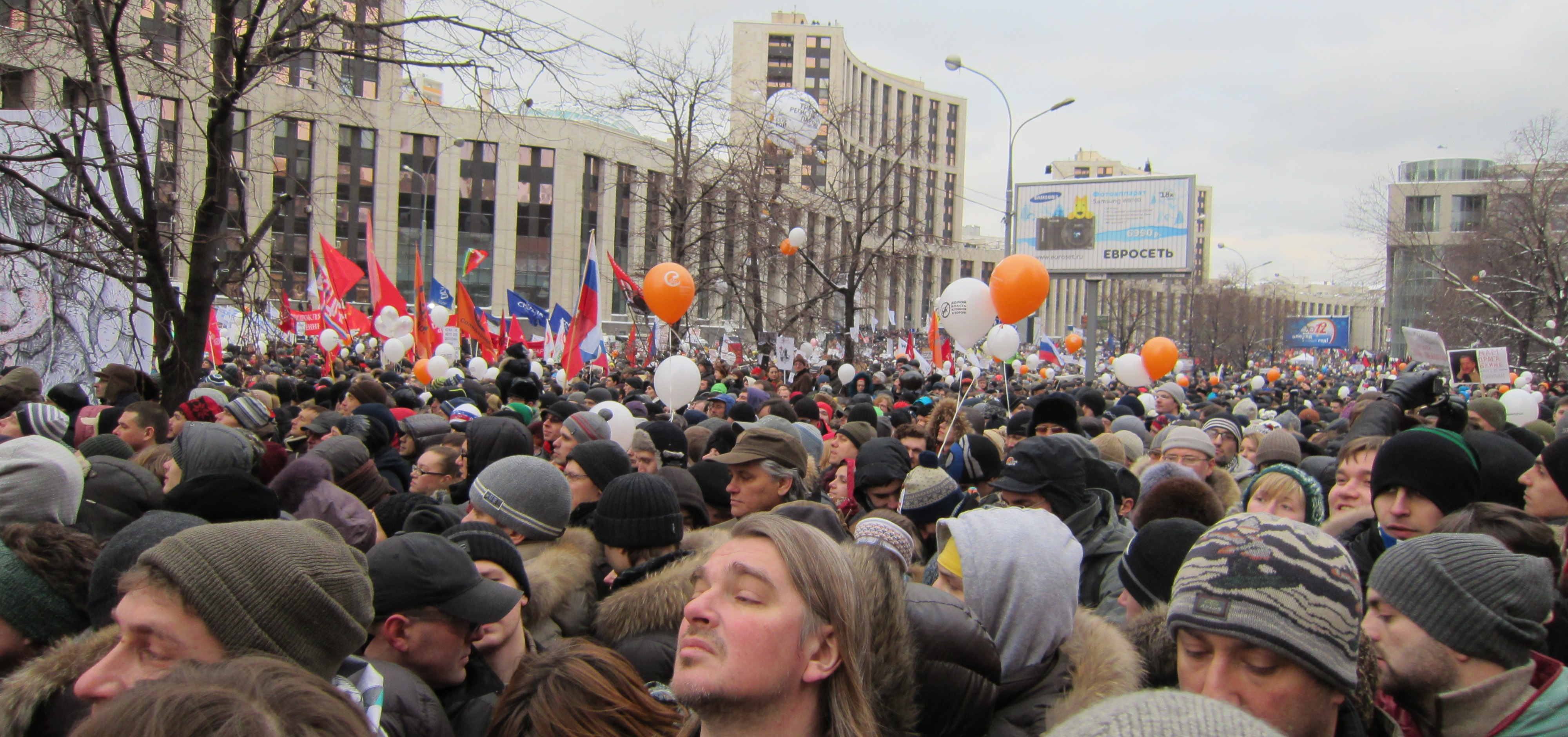 Moscow rally 24 December 2011, Sakharov Avenue